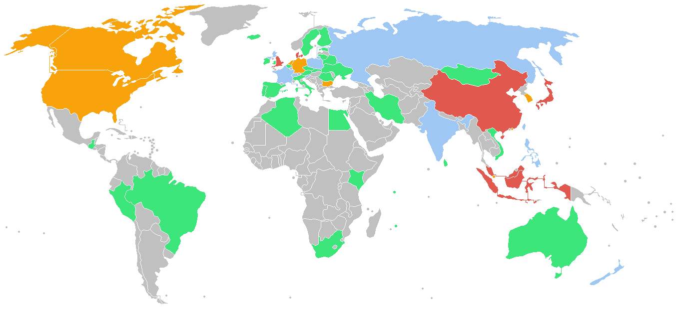 Countries that participating in 2007 World Badminton Championships